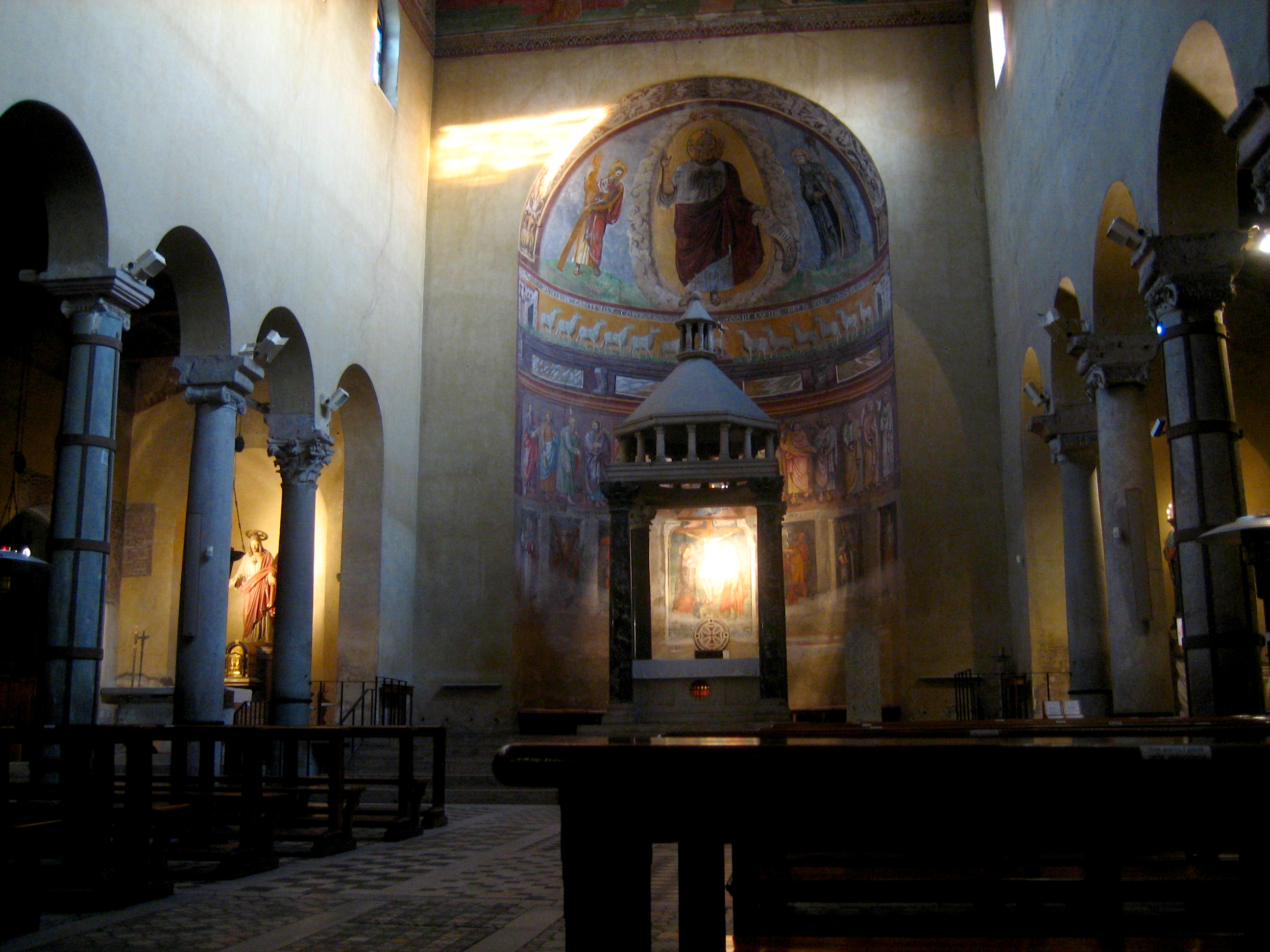 San Saba (Rome) This beautiful medieval church gave its name to the whole district that surrounds it on the Little Aventine hill.